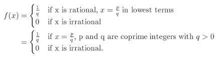 Dirikle function